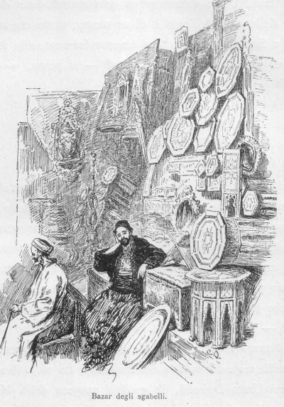 Biseo's drawing from De Amicis book "Costantinopoli" c1878